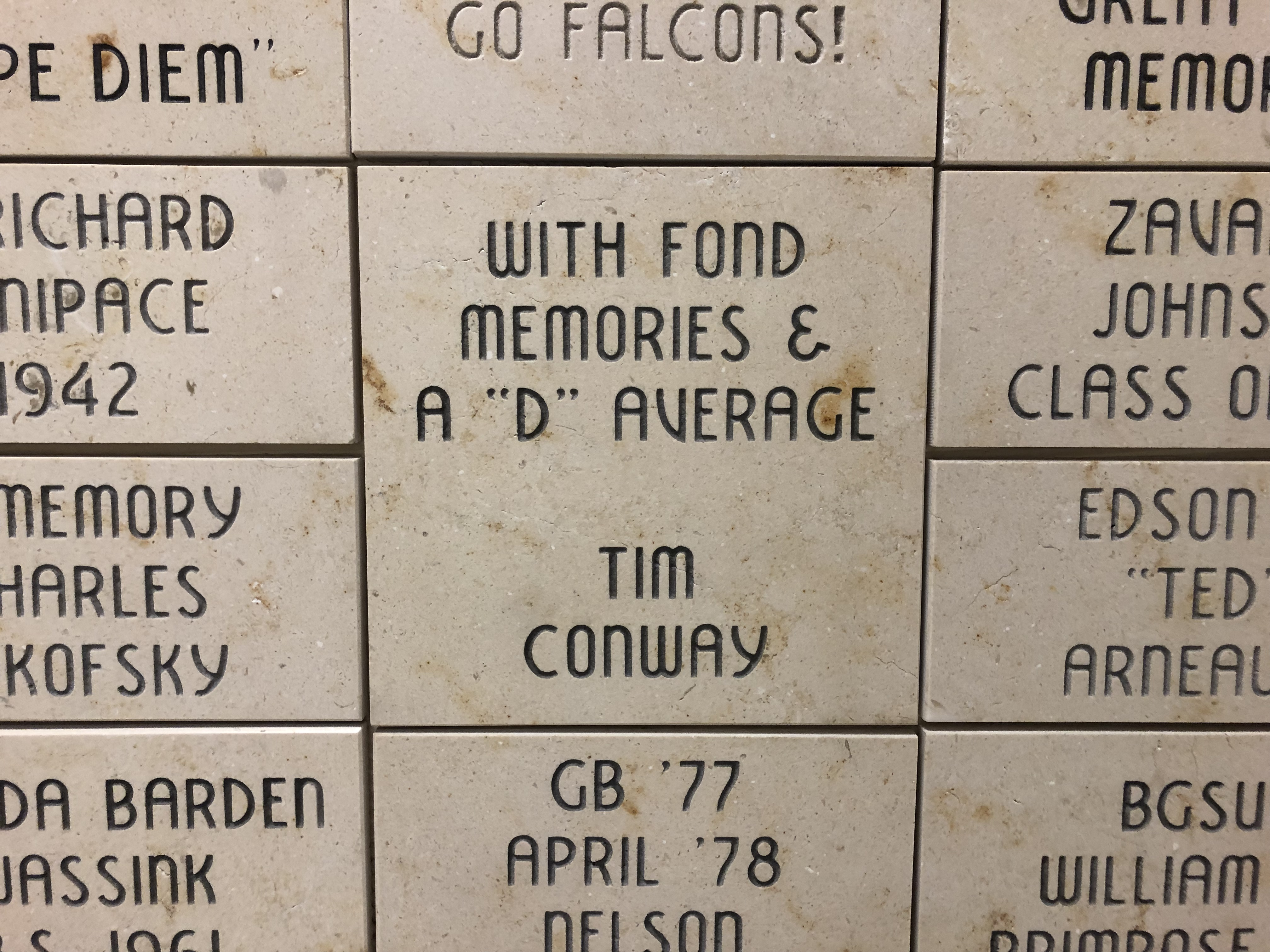 A brick dedicated to Tim Conway on the Bowen-Thompson Student Union doner wall.